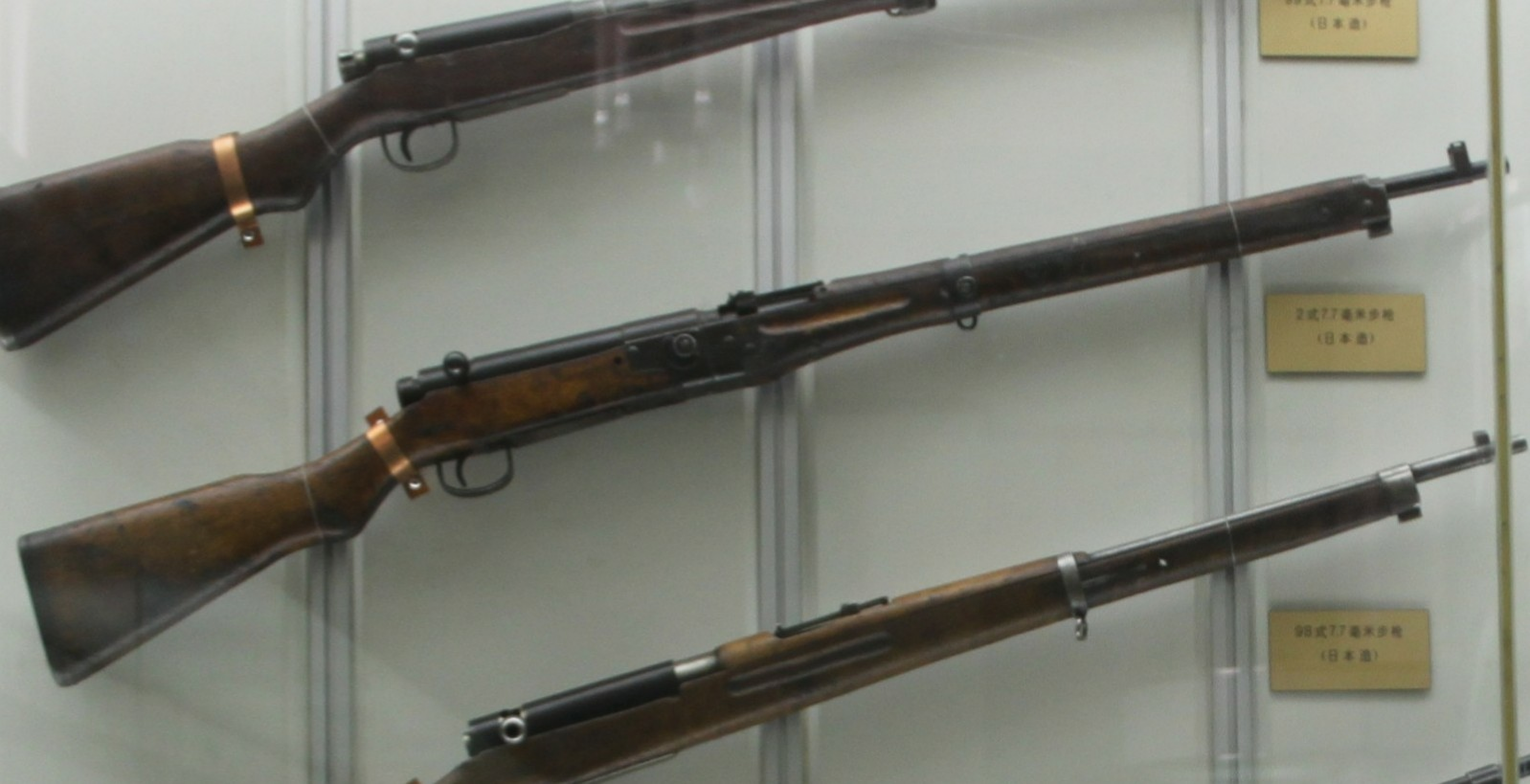 Japanese TERA Rifle